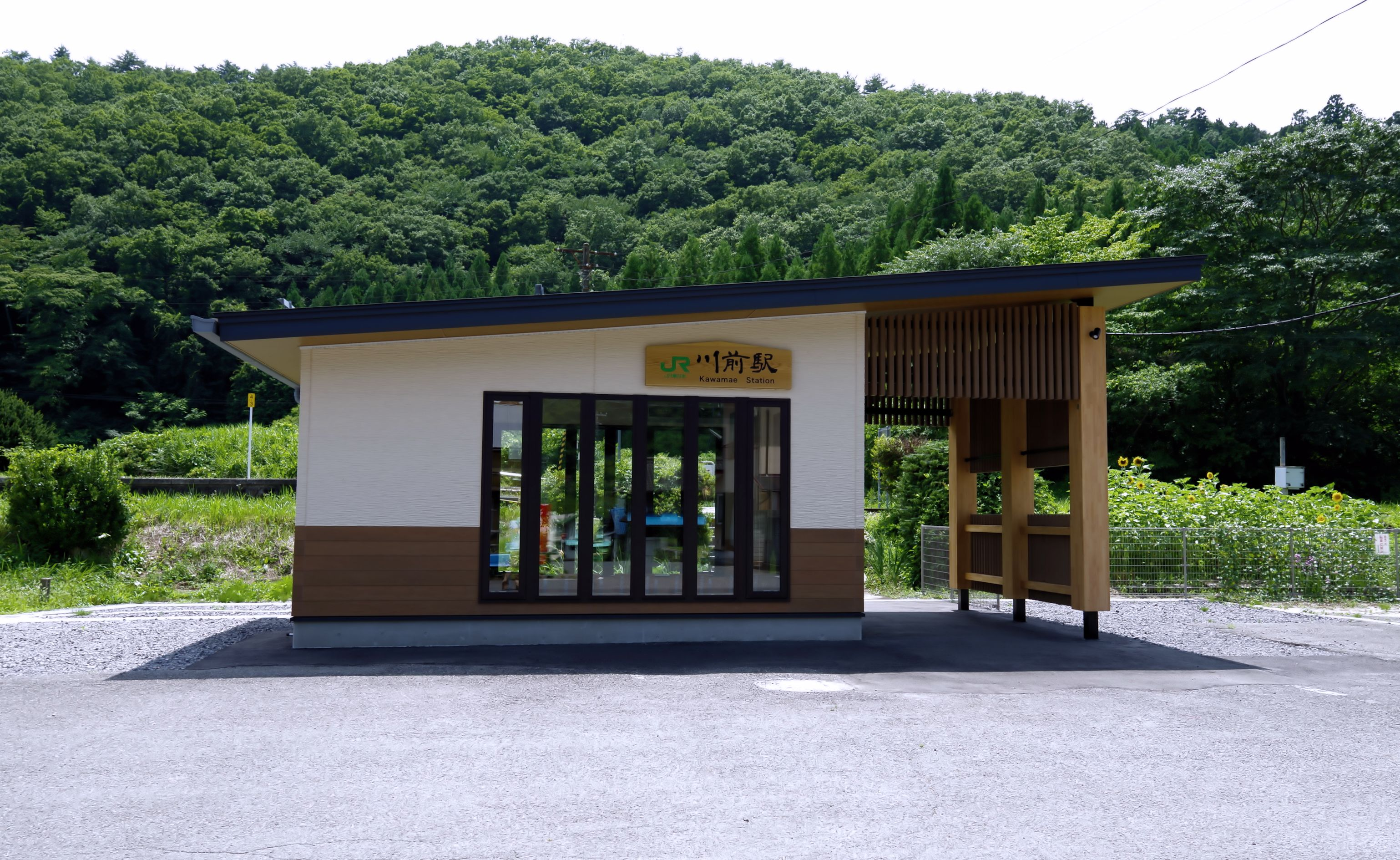 Kawamae Station on the Banetsu East Line